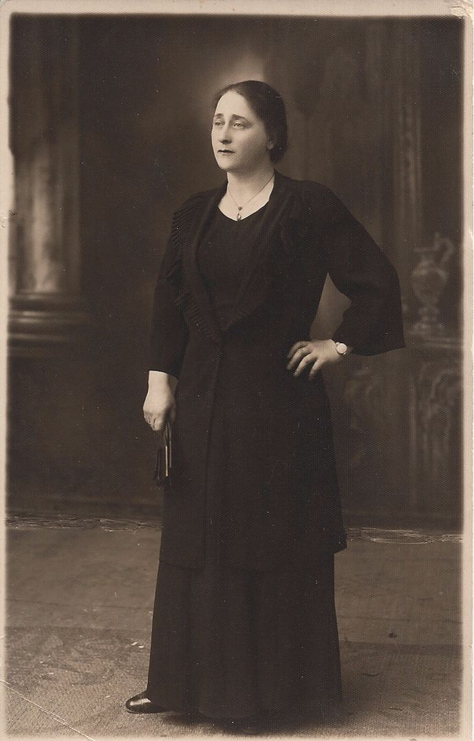 Israeli pianist Rebecca Burstein-Arber in 1935